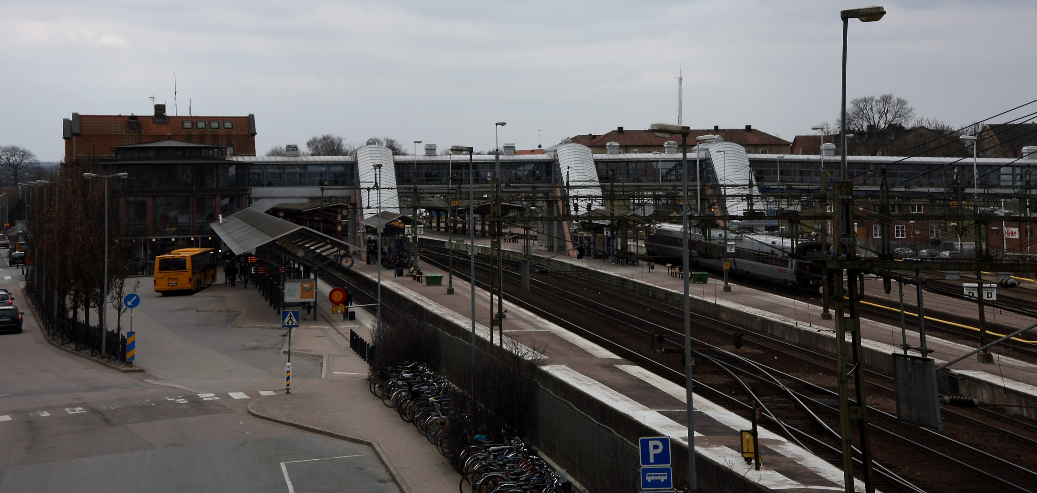 Hässleholm travel center